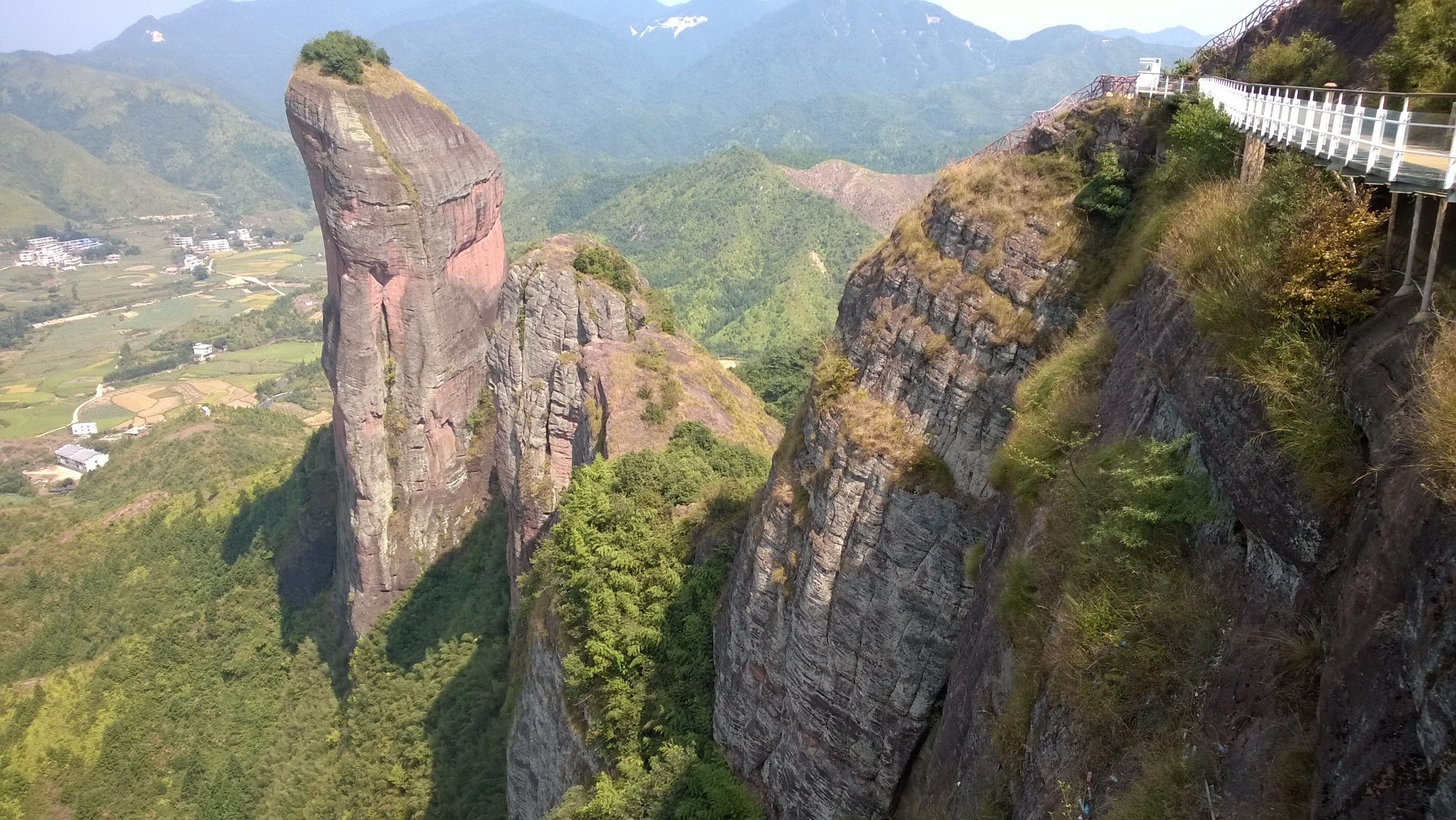 Tongtianzhai Geological Park (in Shicheng County, Ganzhou City, Jiangxi Province)